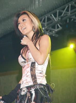 Kumi Koda performing at the 2005 Kami Kaze Con.